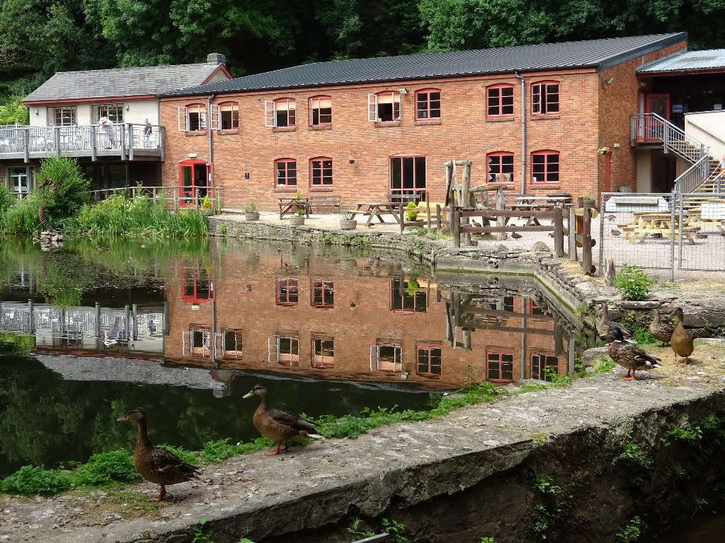 Dean Heritage Centre reflected in a mill pond. In the foreground ducks sit beside the mill race.